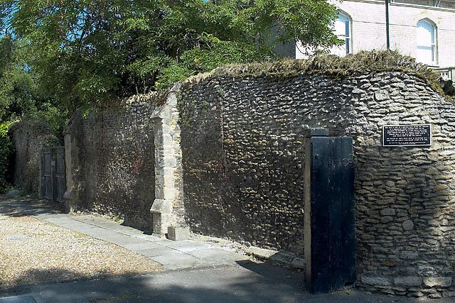 Wall of the former Benedictine priory in Priory Road, St Ives, Cambridgeshire (formerly Huntingdonshire)